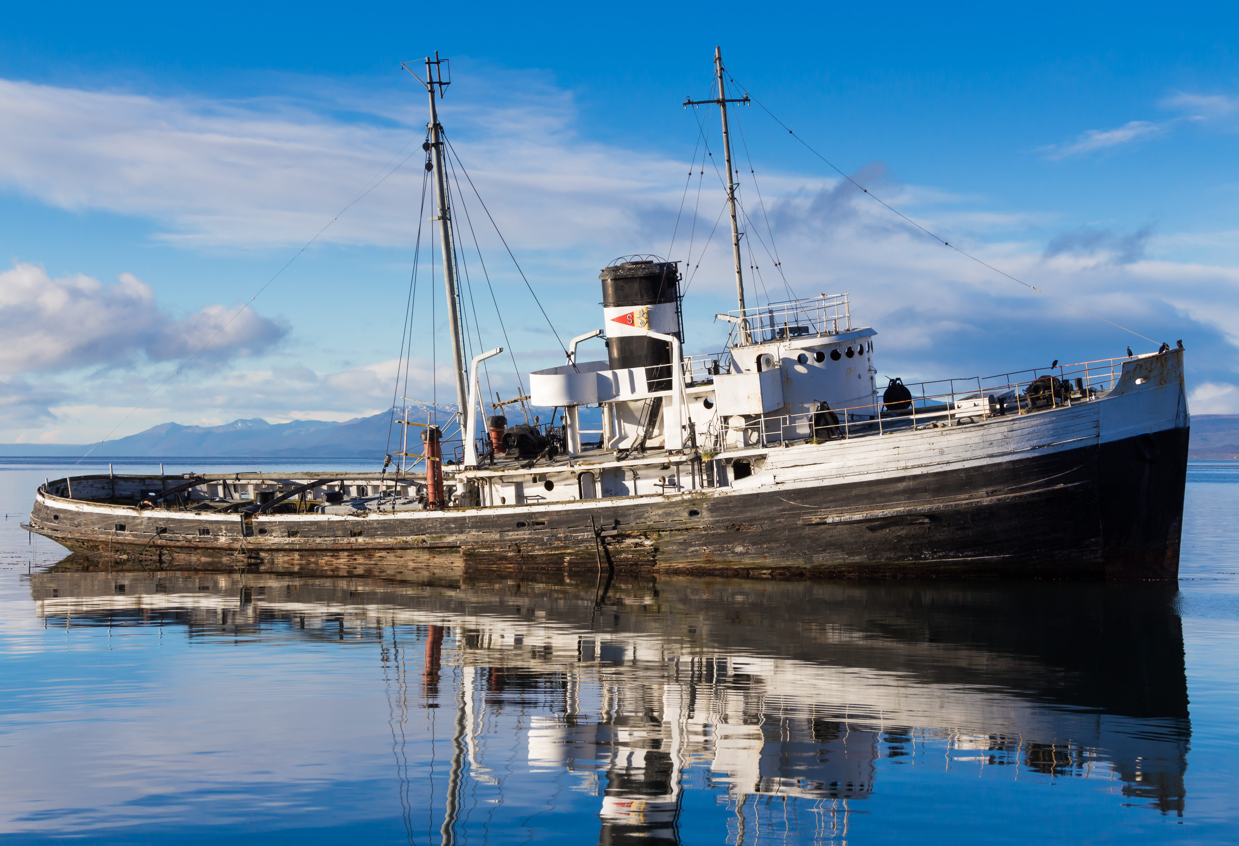 Wreck of HMS Justice W140, known as "St. Christopher" in Ushuaia, Argentina.